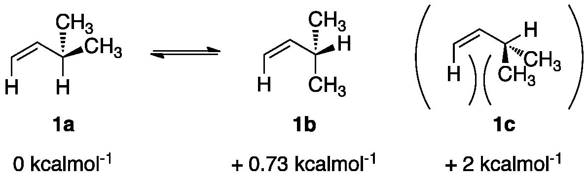 1-butene_allyic_strain.png